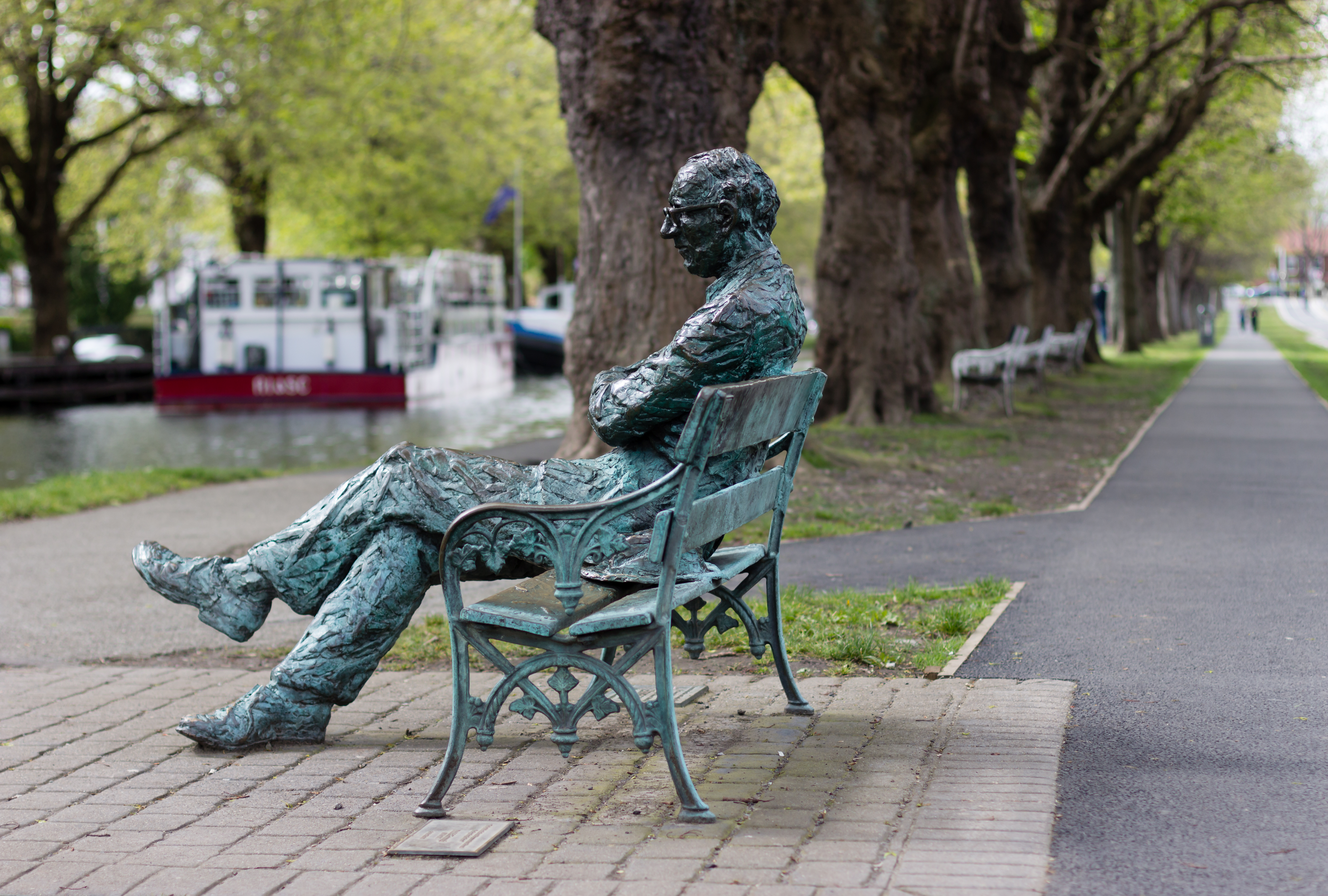 This is a photo of the monument for Patrick Kavanagh, Irish poet and novelist, located at the bank of Grand Canal in Dublin, Ireland.